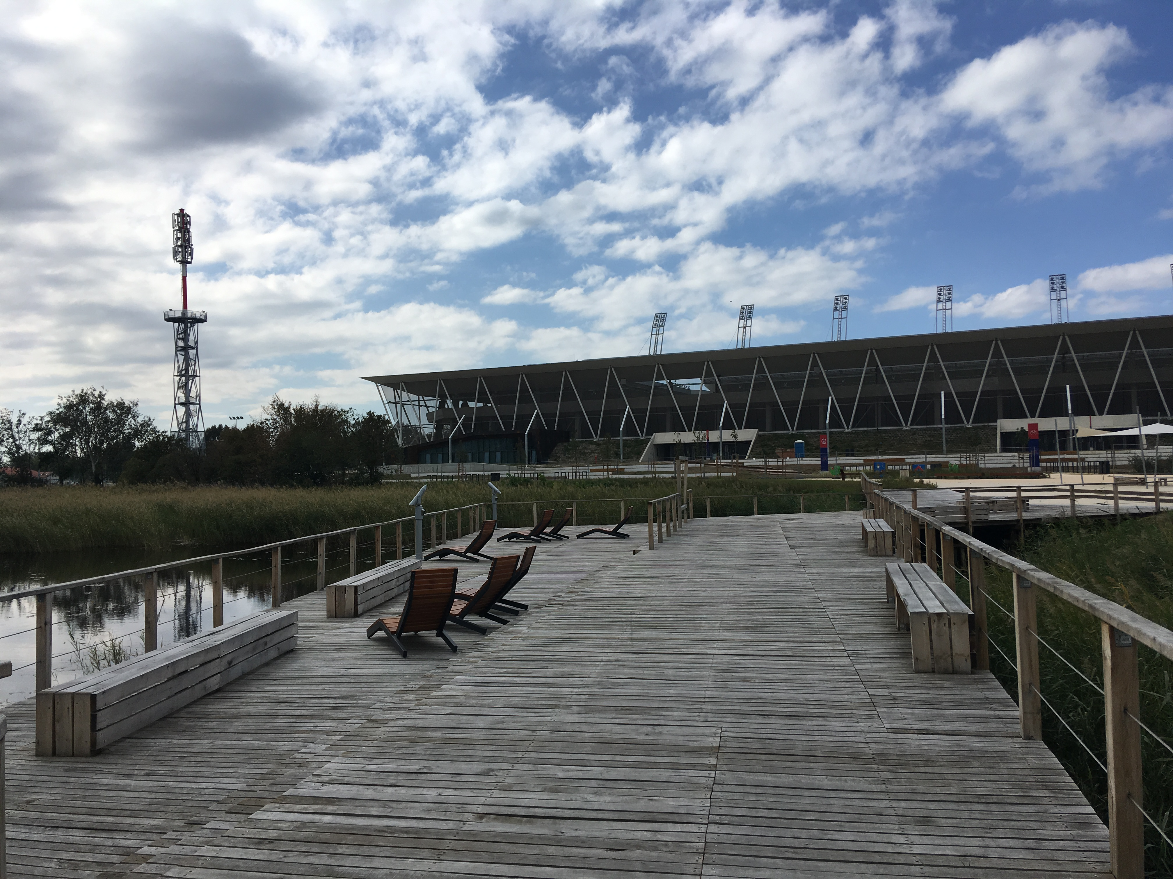 The stadium from the Sóstó nature reserve